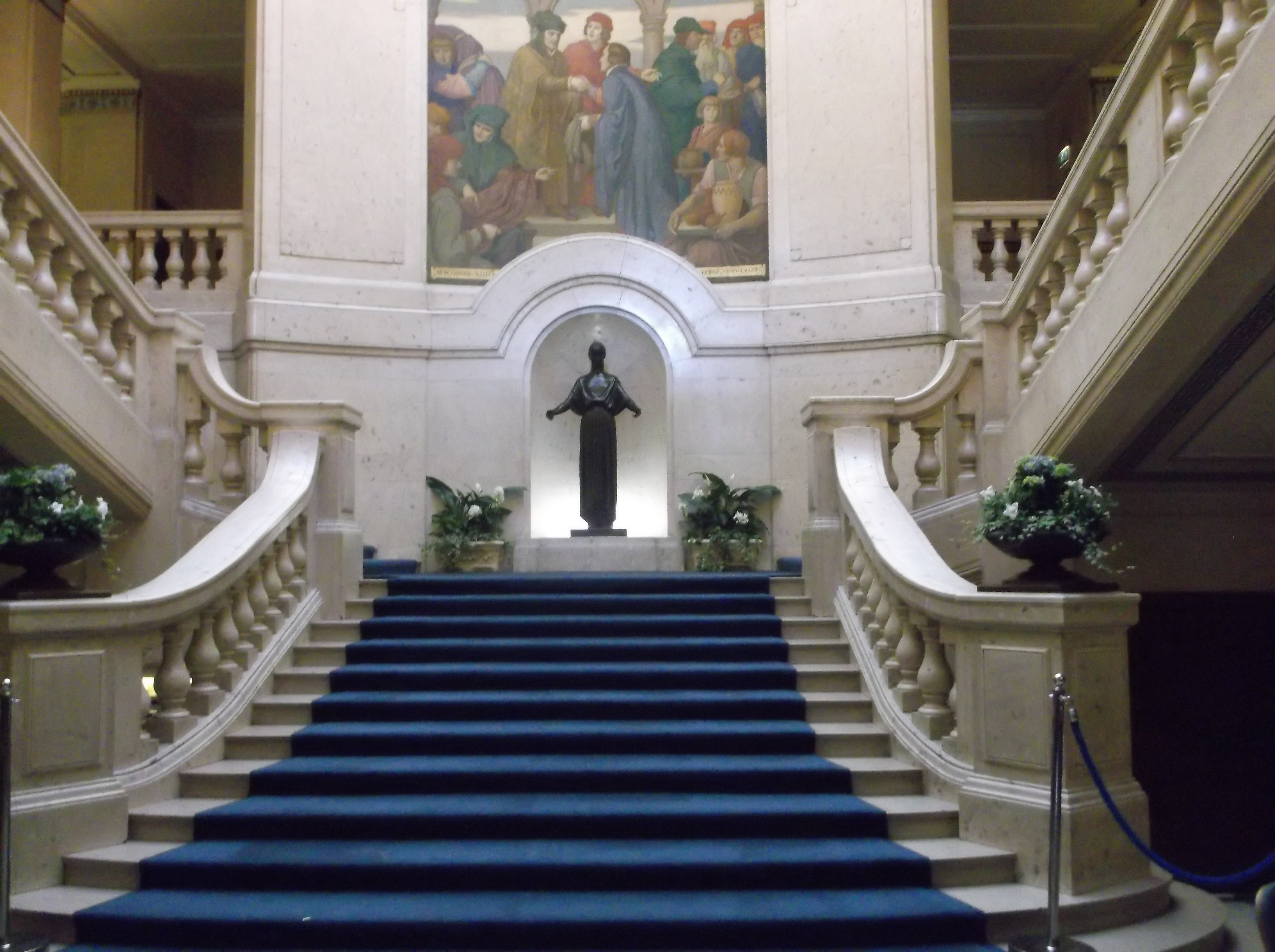 Statue at the top of the main staircase in Nottingham Council House